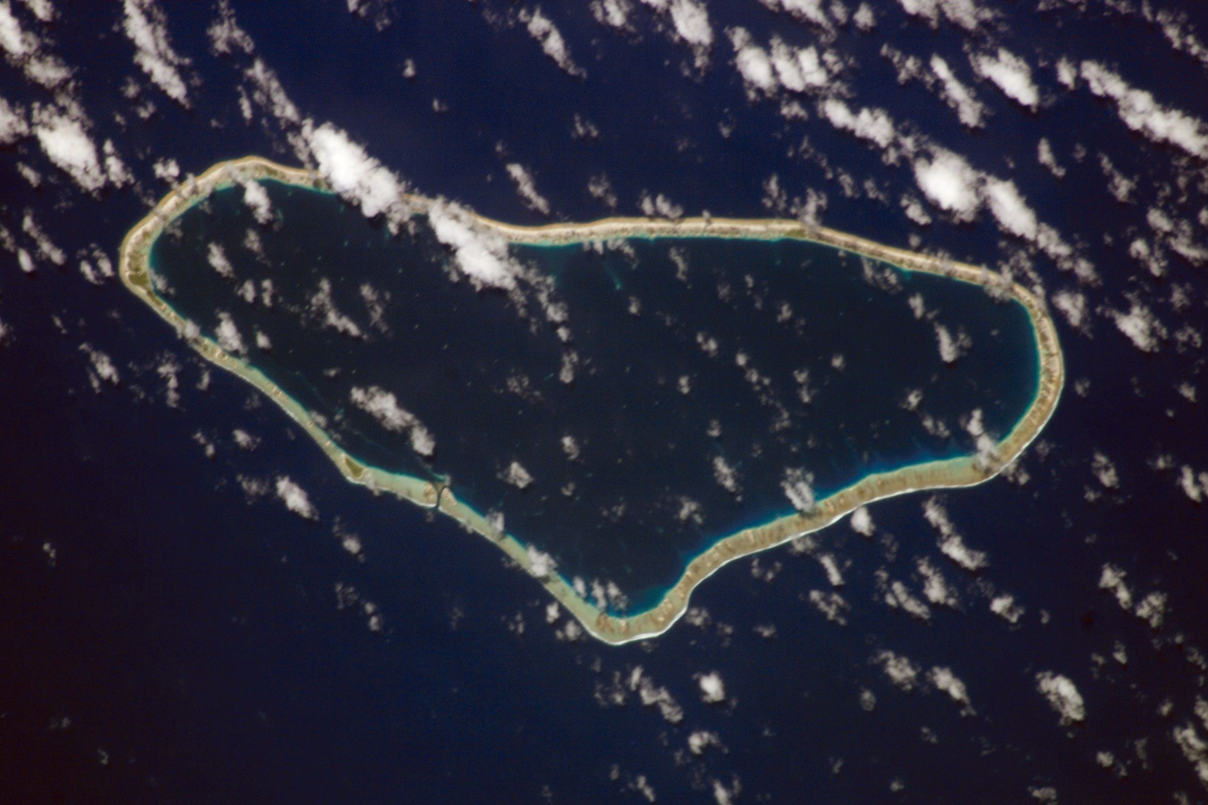 NASA astronaut image of Taenga Atoll (Tuamotu Archipelago, French Polynesia) in the Pacific Ocean